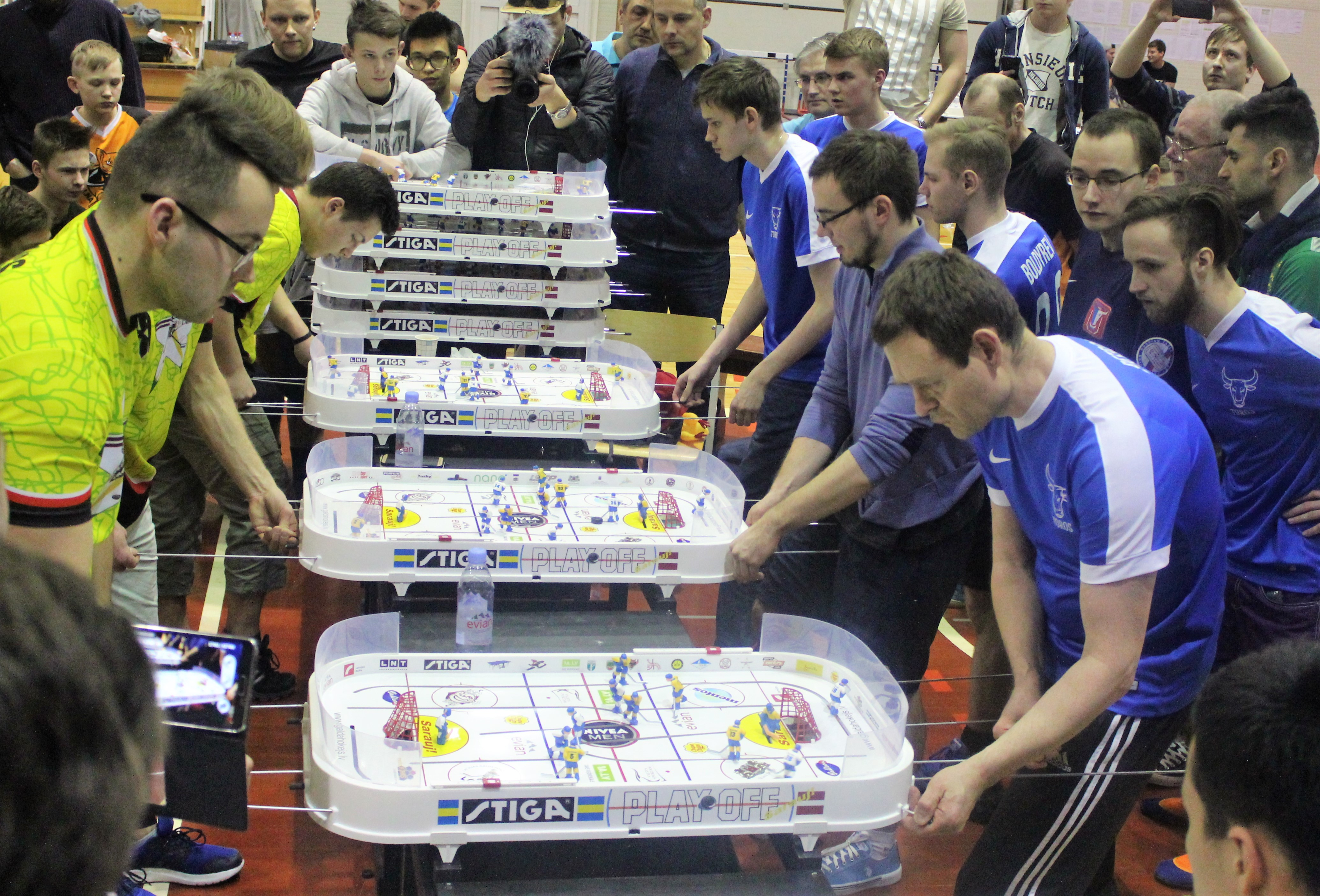 ITHF Table hockey, World Clubs Championship - 2018 in Jēkabpils (LV), final, BJC Laimīte - THC Toros. Toros won and became champions.